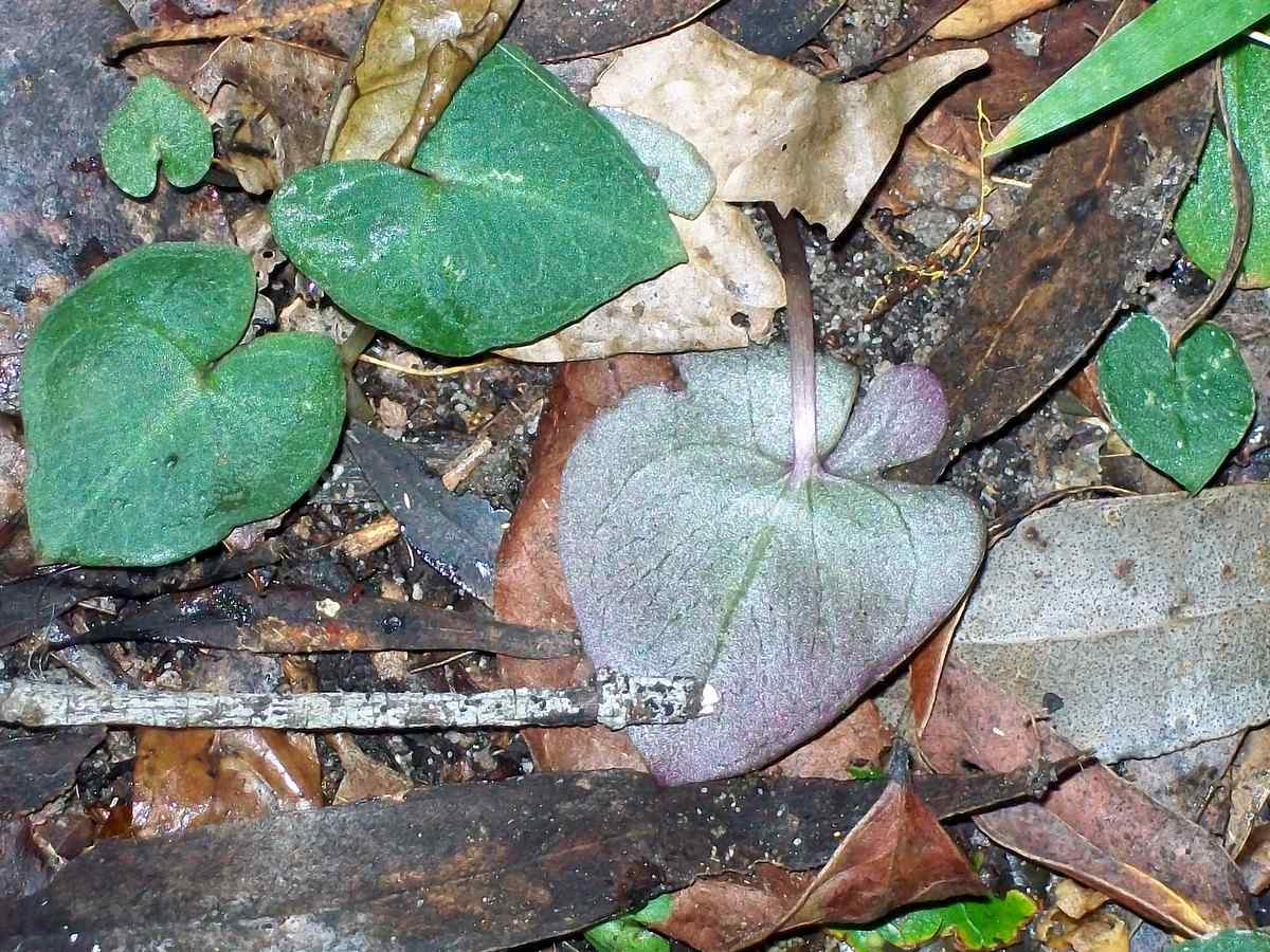 Orchid underleaf, Chatswood. probably Acianthus_fornicatus